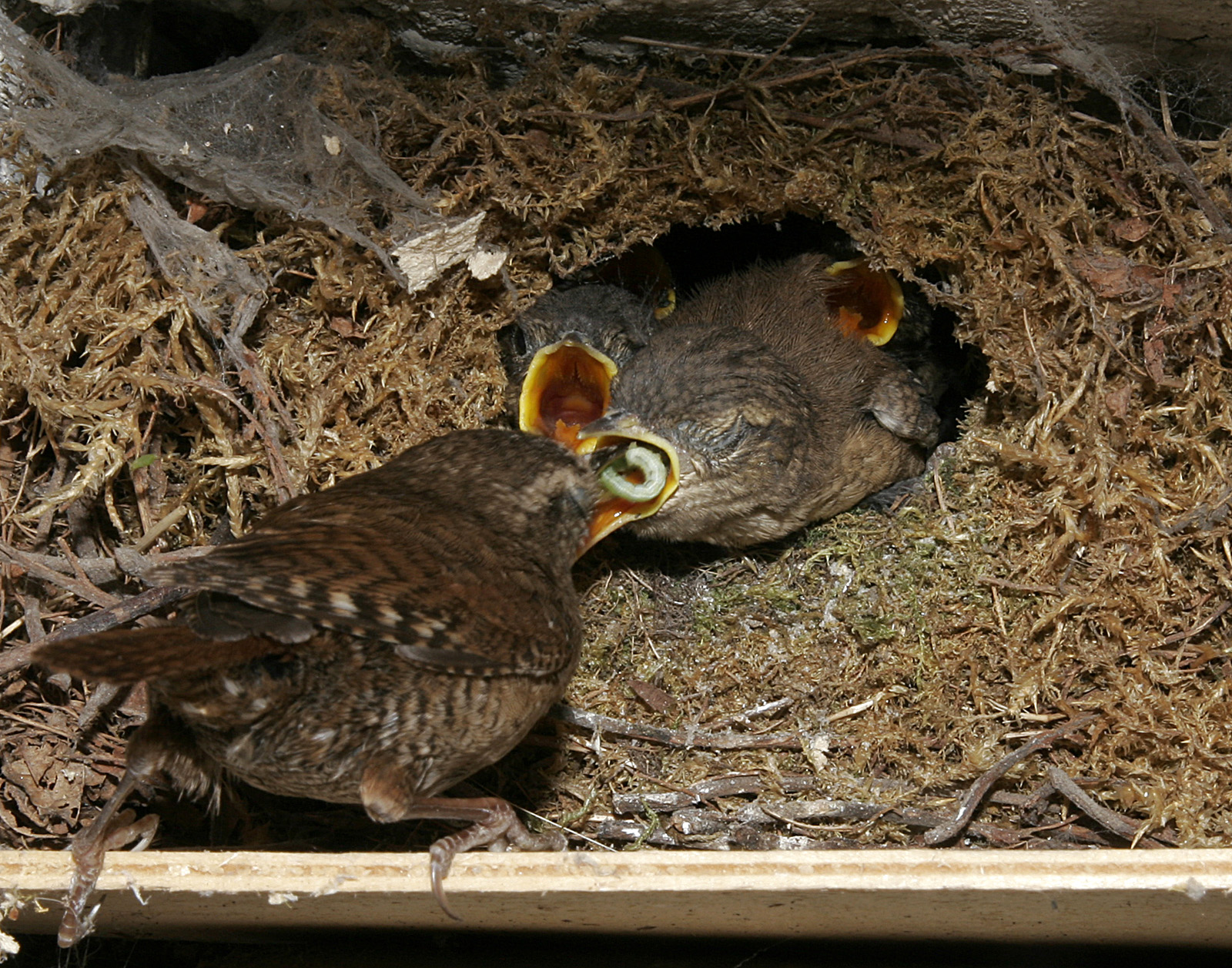 Winter Wren (Troglodytes troglodytes), adult feeding a caterpillar. Picture taken on May 5th, 2007 in Bensheim (Germany).